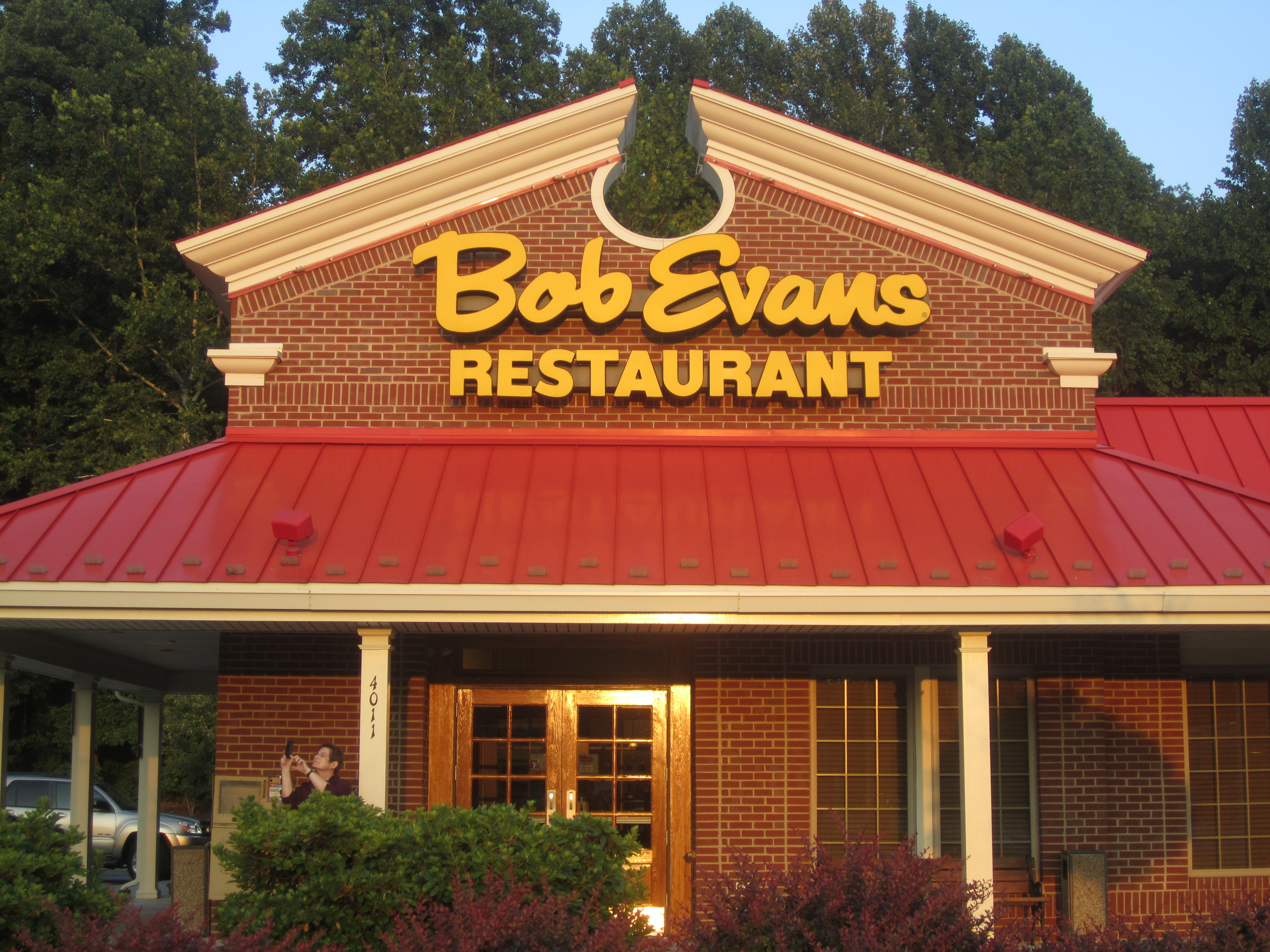 I took photo with Canon camera of Bob Evans Restaurant in Lynchburg, VA.